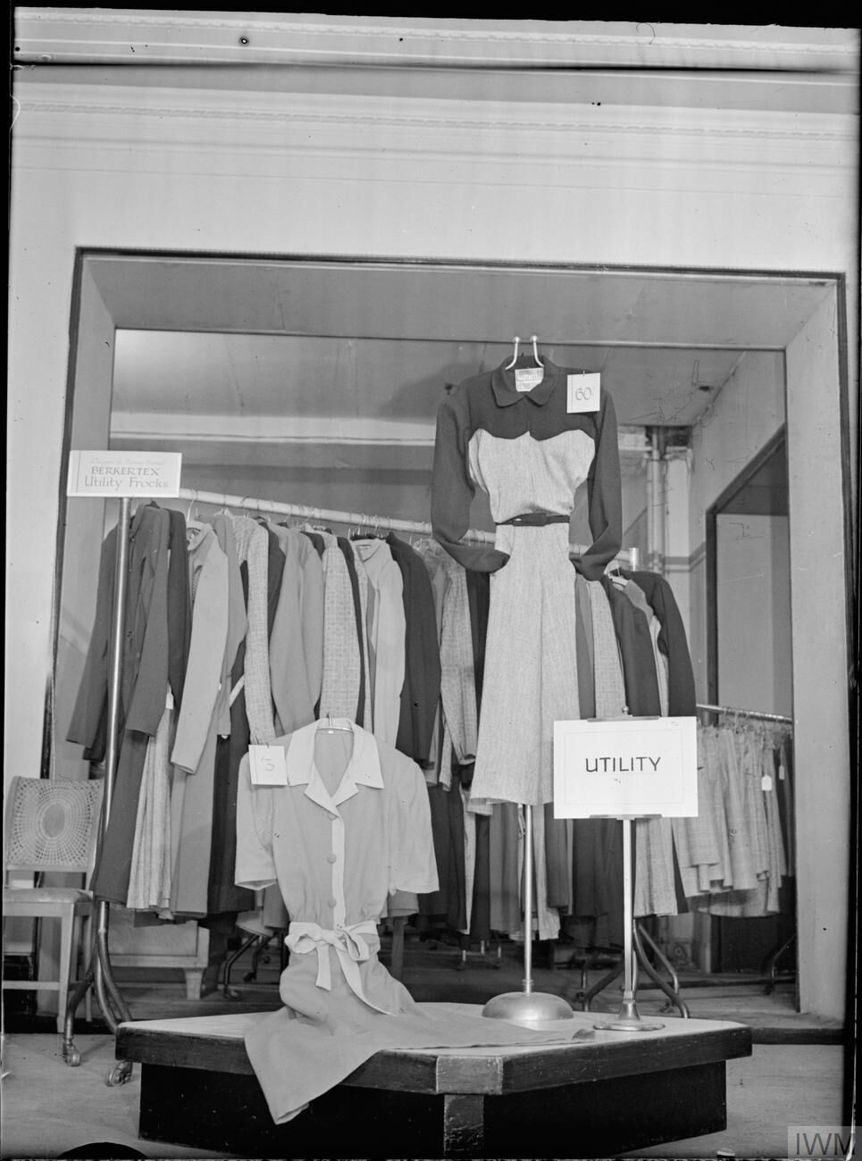 Wartime Fashions- Utility Clothing, 1942 A display of Utility clothes in a shop, somewhere in Britain. Featured on the display stand are two dresses, the one on the right costing 60/-. Behind these is a rail of 'Berkertex Utility frocks', and to the right of the photograph, a rail of skirts. All these clothes were designed by Norman Hartnell.